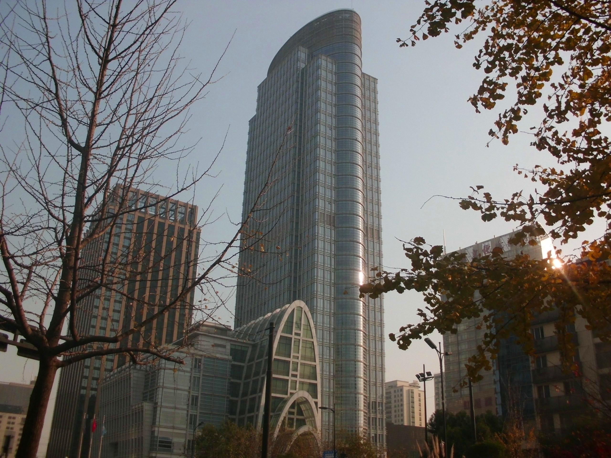 Hangzhou Goethe Hotel